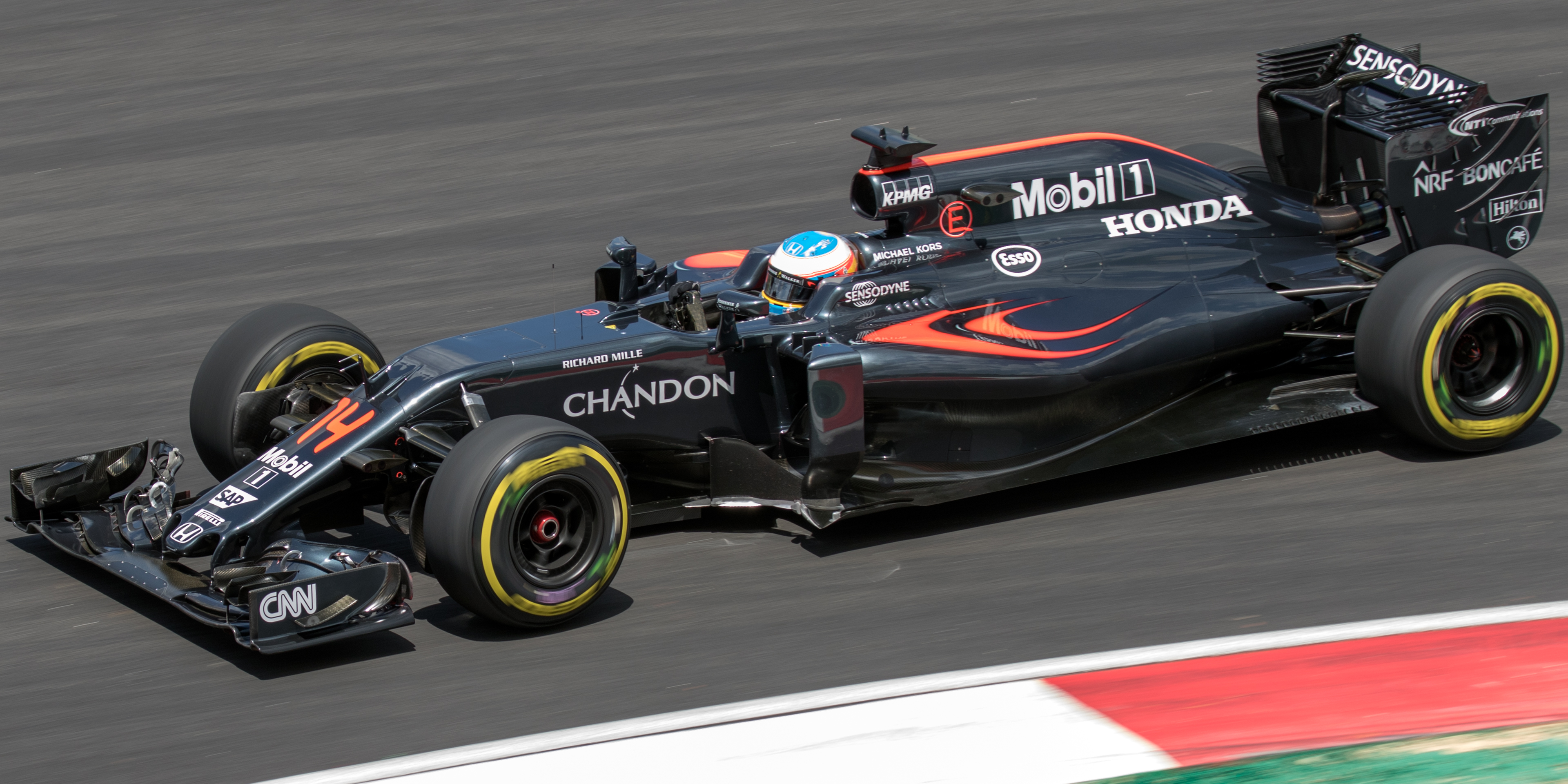 Formula One 2016 Rd.16 Malaysian GP: Fernando Alonso (McLaren)